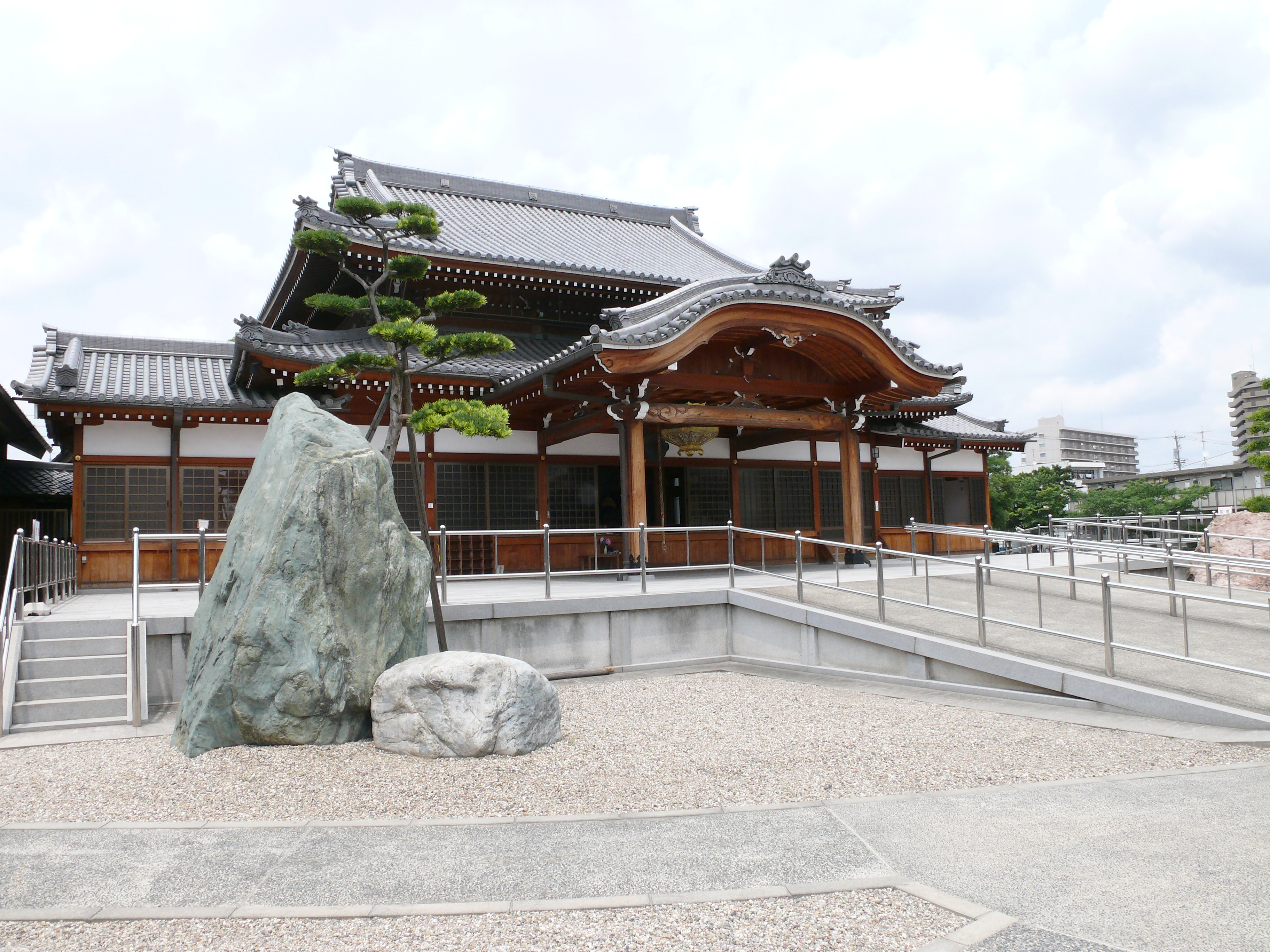 Arako Kannon in Nagoya